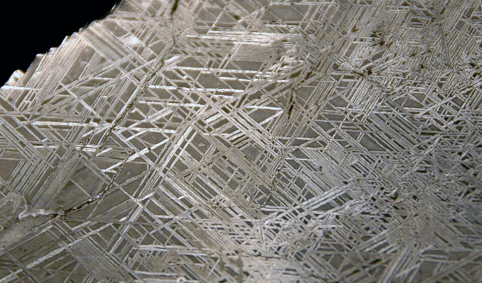 Sample of the Carlton Meteorite from northern Hamilton County, central Texas, USA (FMNH Me 879, Field Museum of Natural History, Chicago, Illinois, USA). Octahedrite - a cut, polished, and nitric acid-etched surface of criss-crossing blades of kamacite with some taenite.